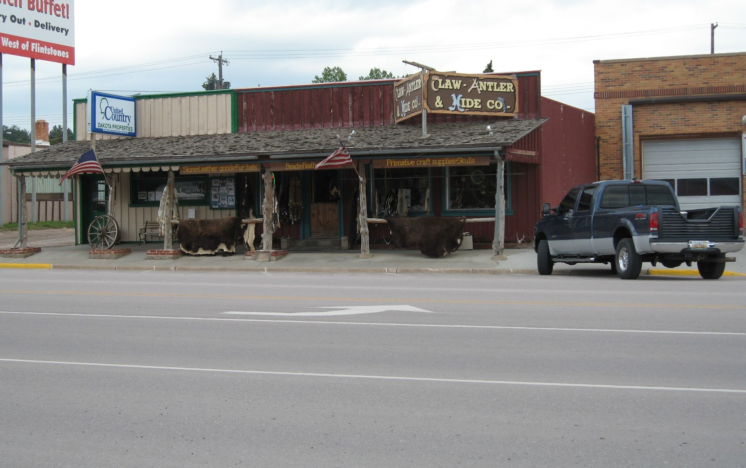 Shop at mainstreet in Custer, South Dakota, USA